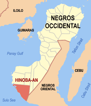 Map of Negros Occidental showing the location of Hinoba-an